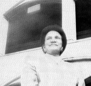 bio note: Born in Shreveport, La., she earned a masters in business administration at Wharton School of Business and a Ph.D. from the University of Illinois in 1963. She developed a Leadership Program with students who rank in the top five percent nationally and served on the boards of such bssinesses as Hershey Foods, Anheuser-Busch and Sears. She is a consultant to the United States Agency for International Development in a number of African countries.